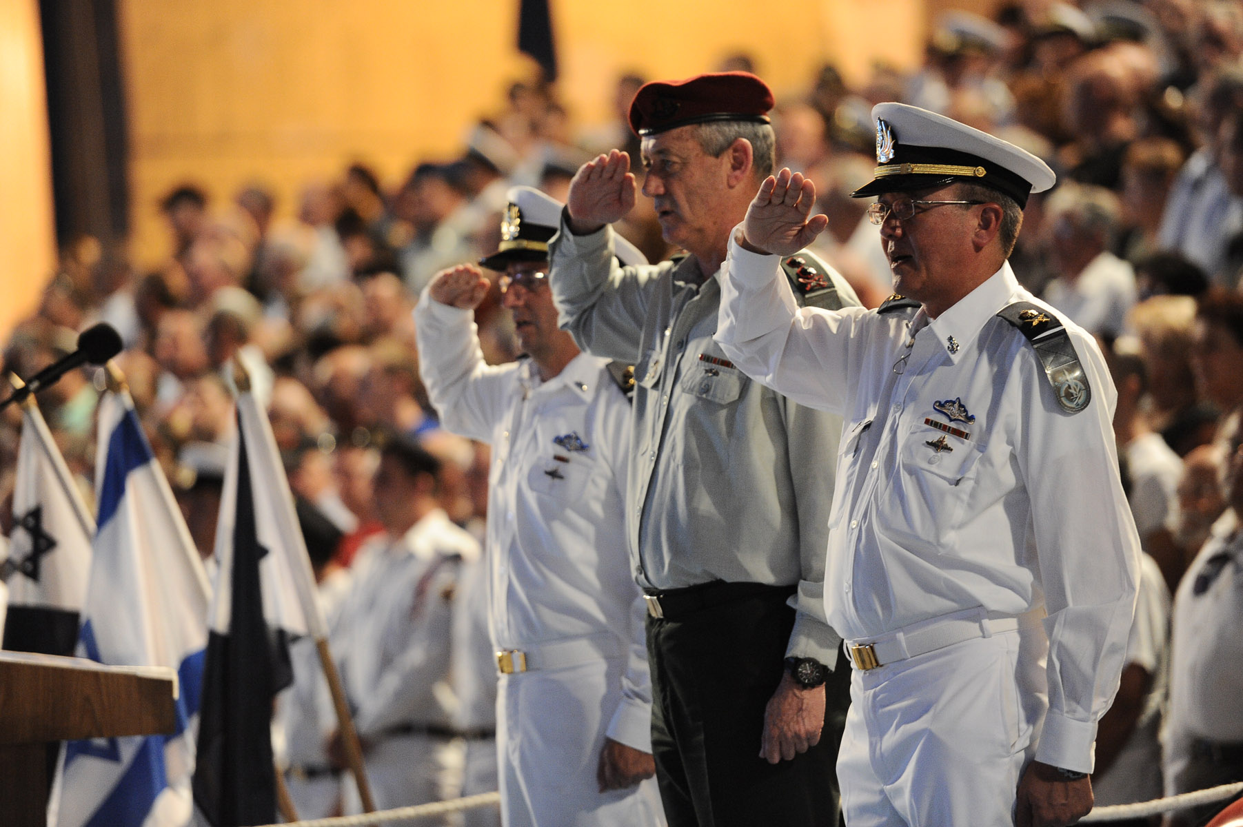 Ceremony for the newly appointed Commander in Chief of Israeli Navy, Brig. General Ram Rotenberg, replacing his predecessor Brig. General Aliezer Marom.